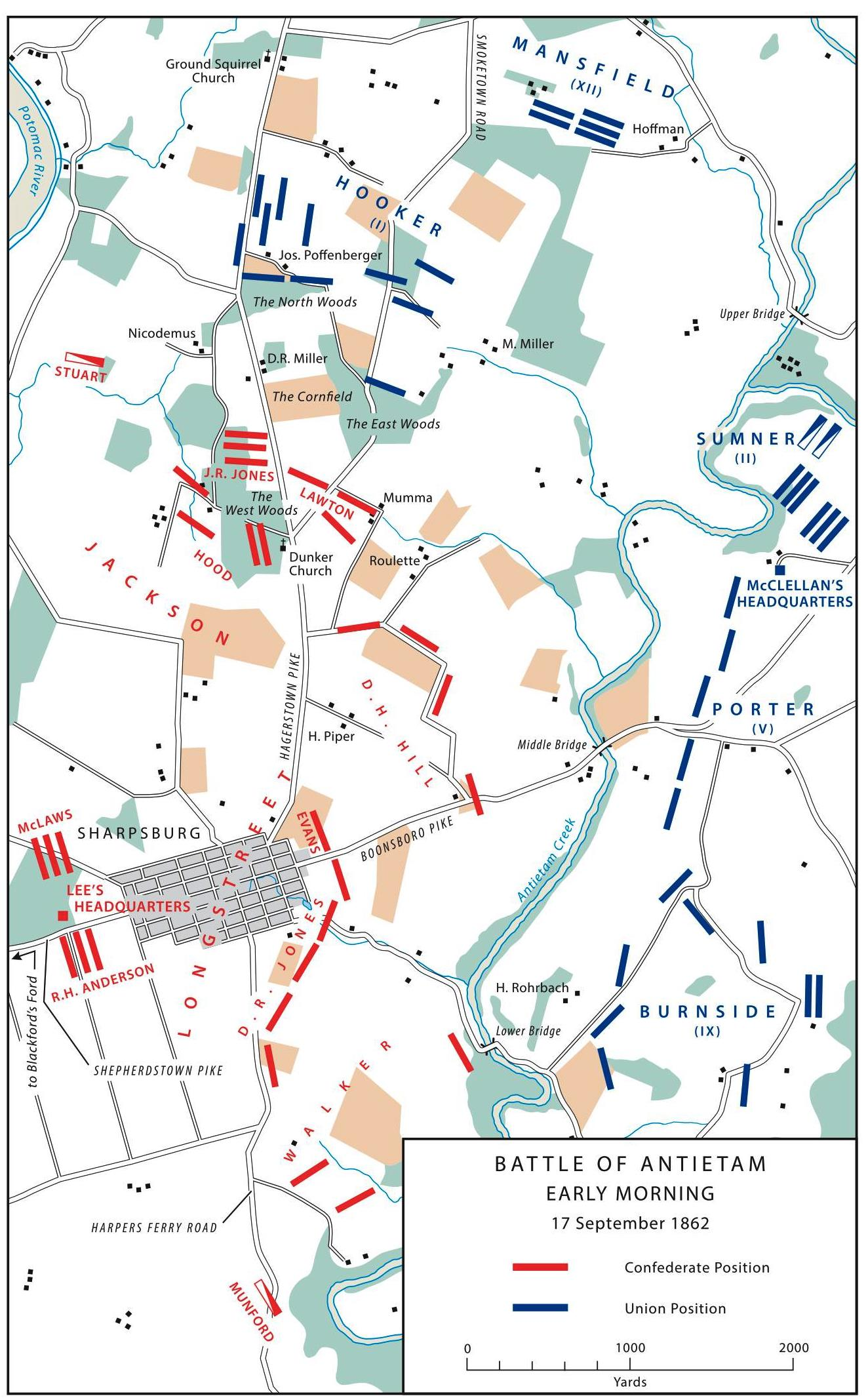 Maryland Campaign: 17 September 1862 (Antietam).